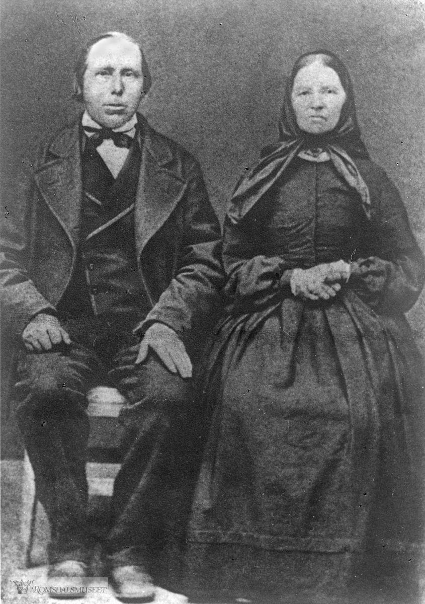 Knut Mestad Hatlen 1819-1913 and wife:Torbjørg Mikkelsdatter Hatlen. Both was born at Evanger (close to Voss). Date of photo:1848